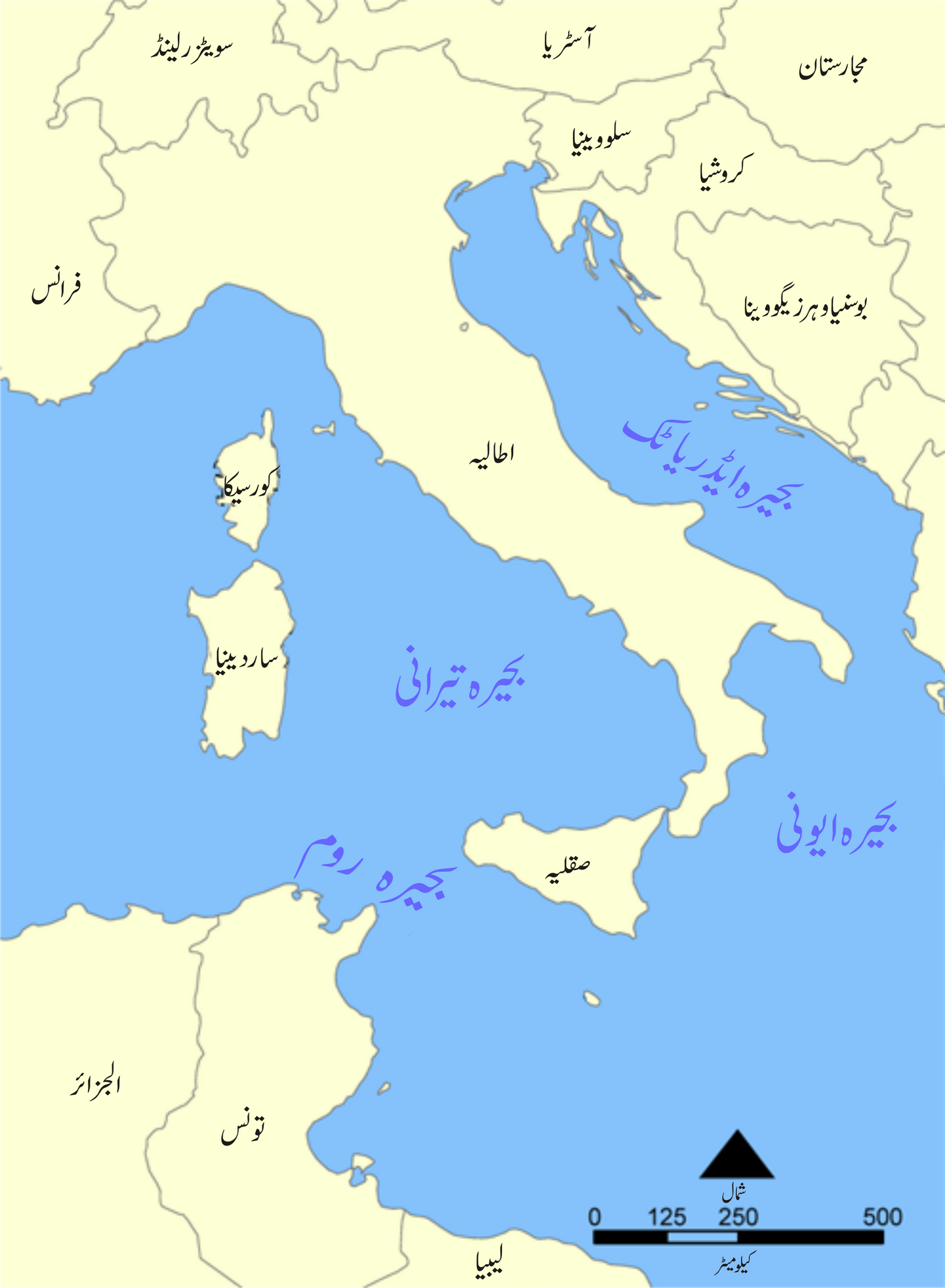 Tyrrhenian Sea map Urdu